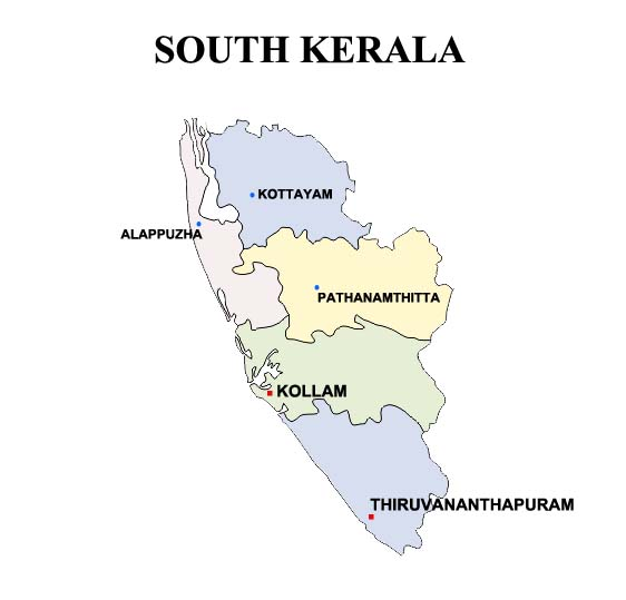 South Kerala is a region in Kerala that includes the districts of Thiruvananthapuram, Kollam, Pathanamthitta, Alappuzha & Kottayam.